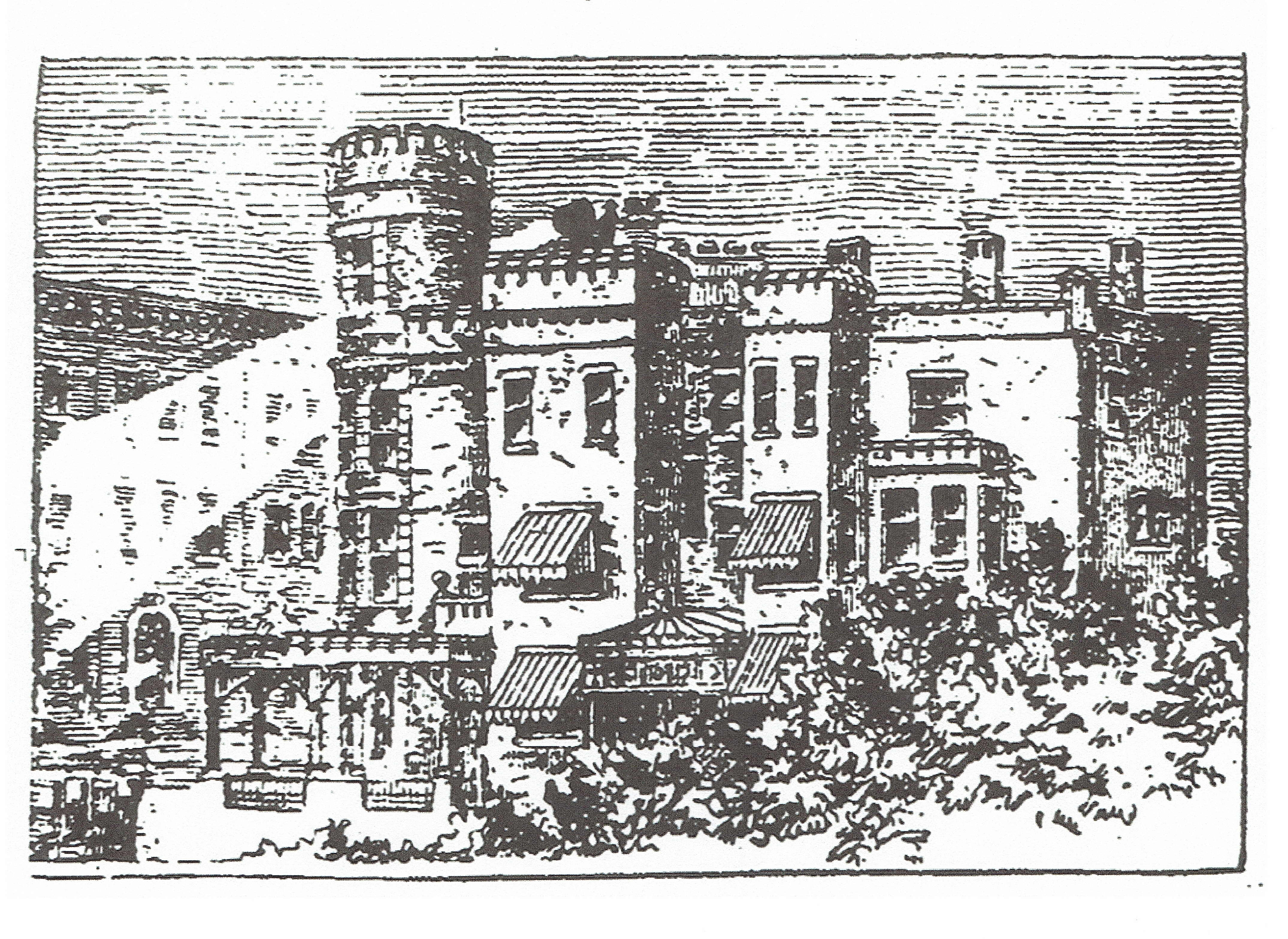 Inventor Rudolph M. Hunter's home at 3710 Chestnut St., Philadelphia, Pennsylvania, in 1893.